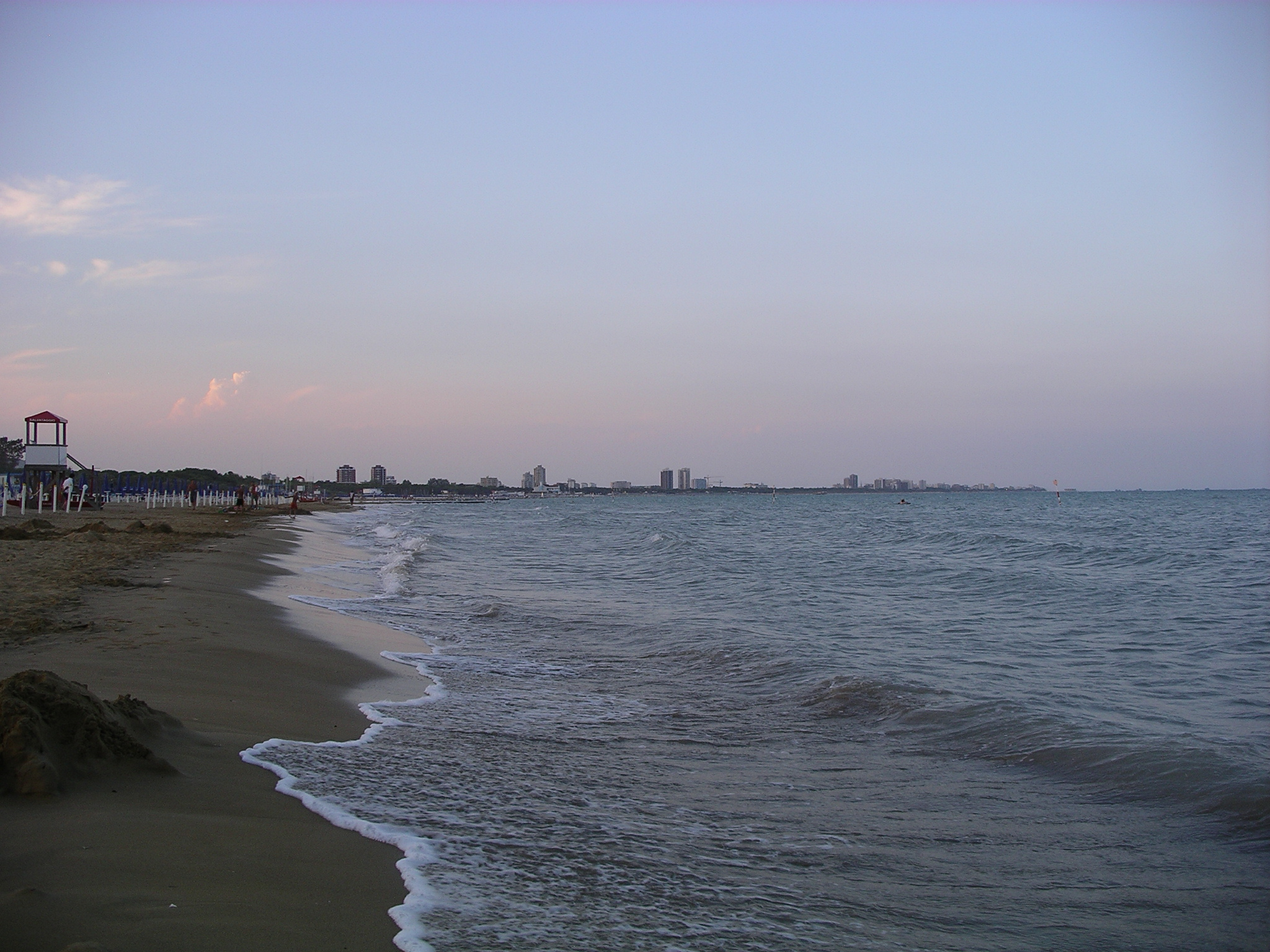 Beach at sunset, Lignano Sabbiadoro (UD), Italy